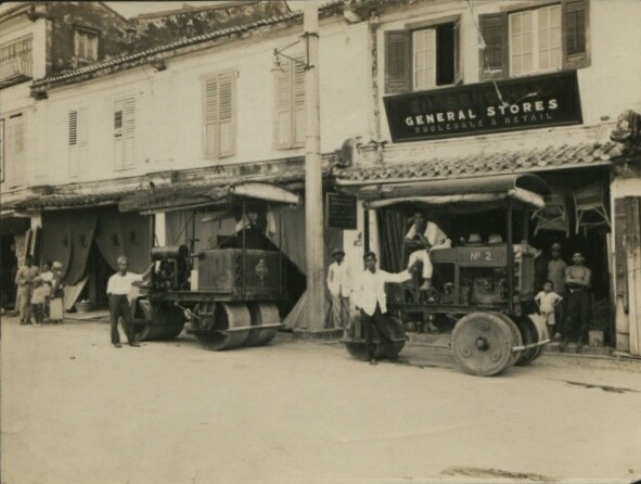 Kuching Bazaar. Location: Kuching, Borneo Our Catalogue Reference: Part of CO 1069/553. This image is part of the Colonial Office photographic collection held at The National Archives. Feel free to share it within the spirit of the Commons. Please use the comments section below the pictures to share any information you have about the people, places or events shown. We have attempted to provide place information for the images automatically but our software may not have found the correct location. For high quality reproductions of any item from our collection please contact our image library